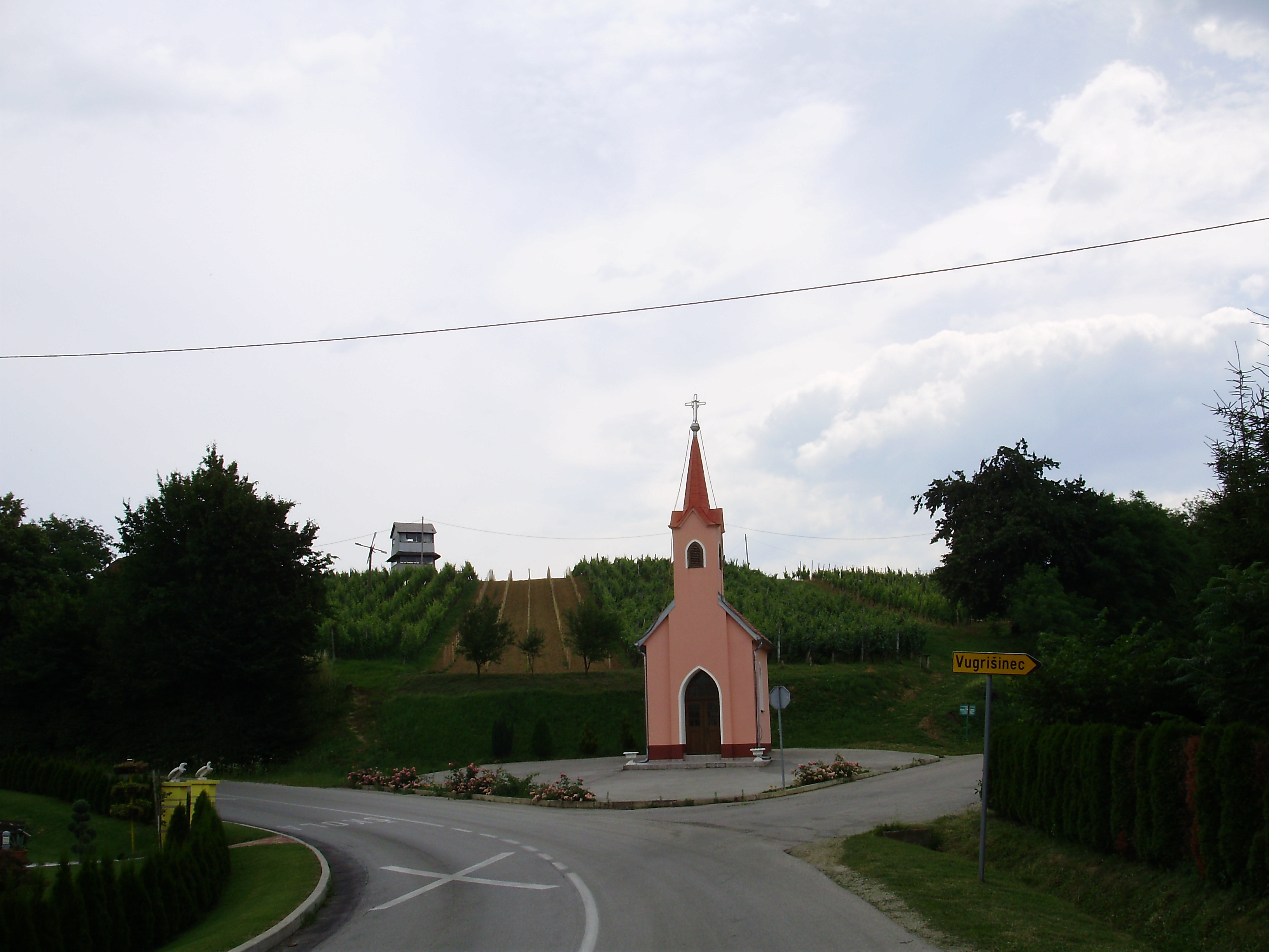 Chapel in the village Prekopa.